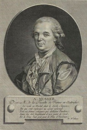 Print of Franz Anton Mesmer preserved at the museum of the French Revolution - Vizille.